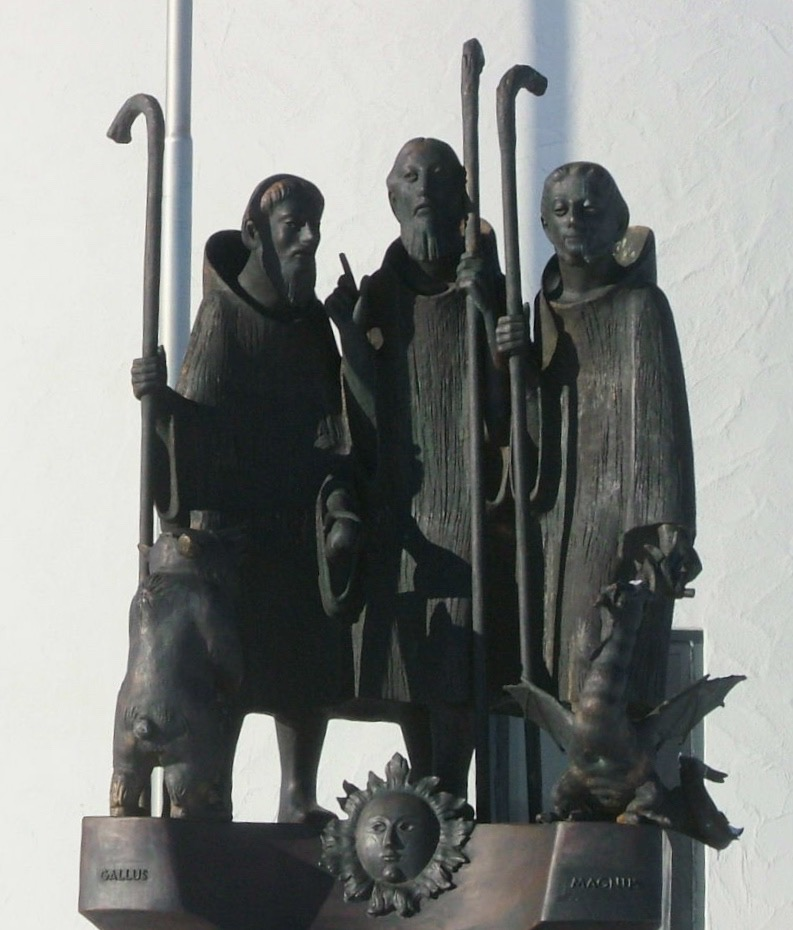 The Three Acts of the Allgäu (St. Gallus, St. Columba, St. Magnus), sculpture by Boniface Stirnberg in front of the motorway chapel of St. Gallus above the A 96, Leutkirch im Allgäu, Germany